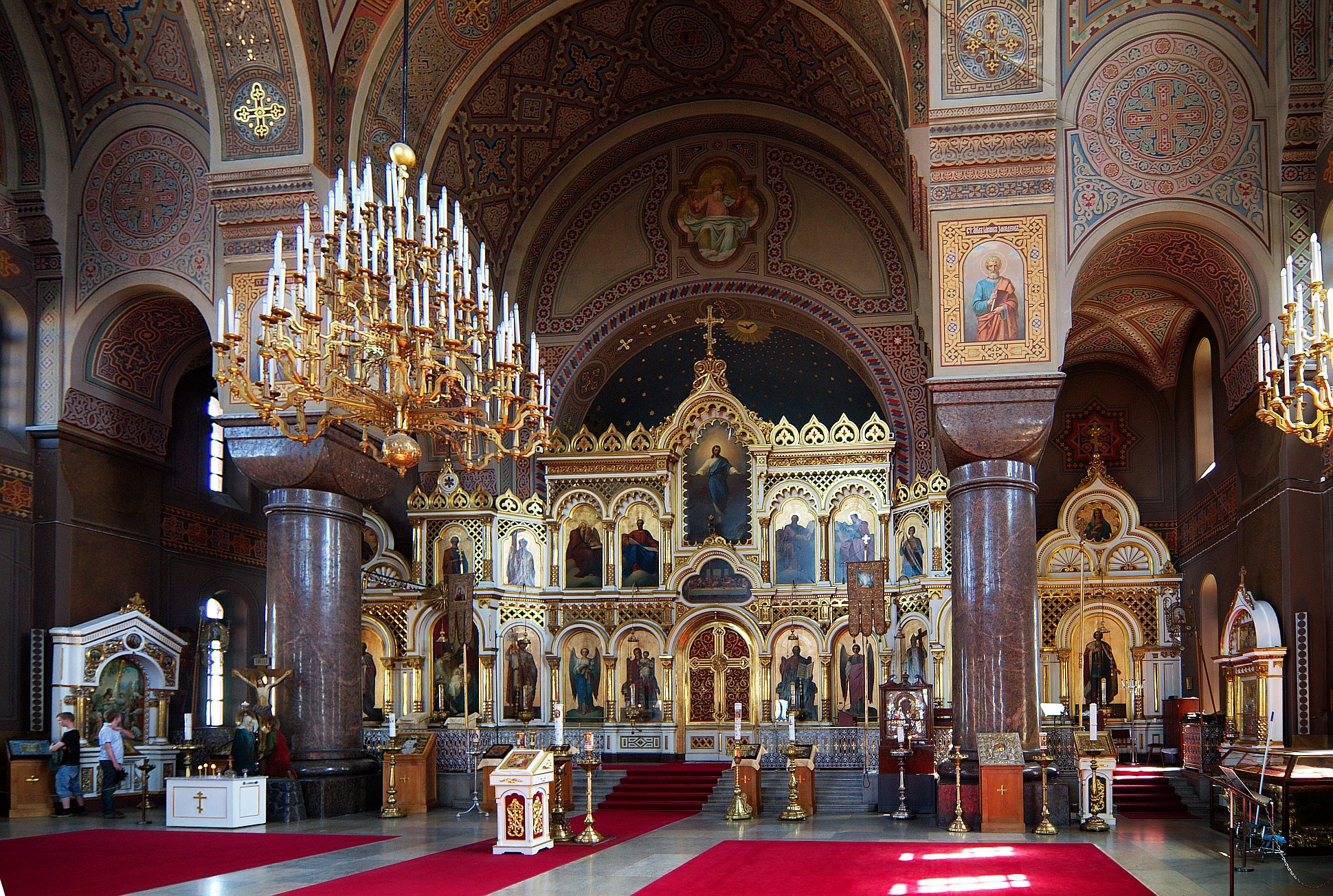 Iconsotasis of Uspenski Cathedral in Helsinki, Finland